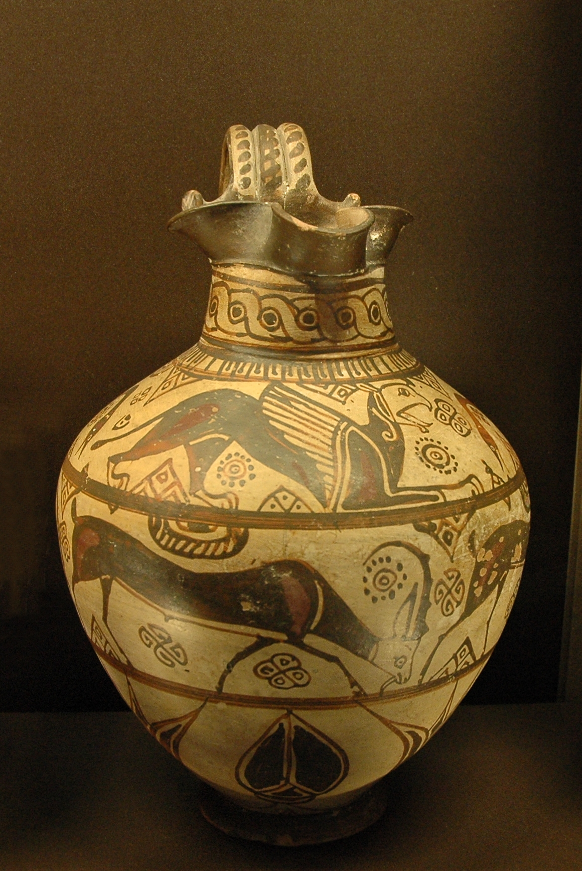 Oinochoe of the wild-goat style. Kameiros, Rhodes, ca. 625 BC–600 BC.